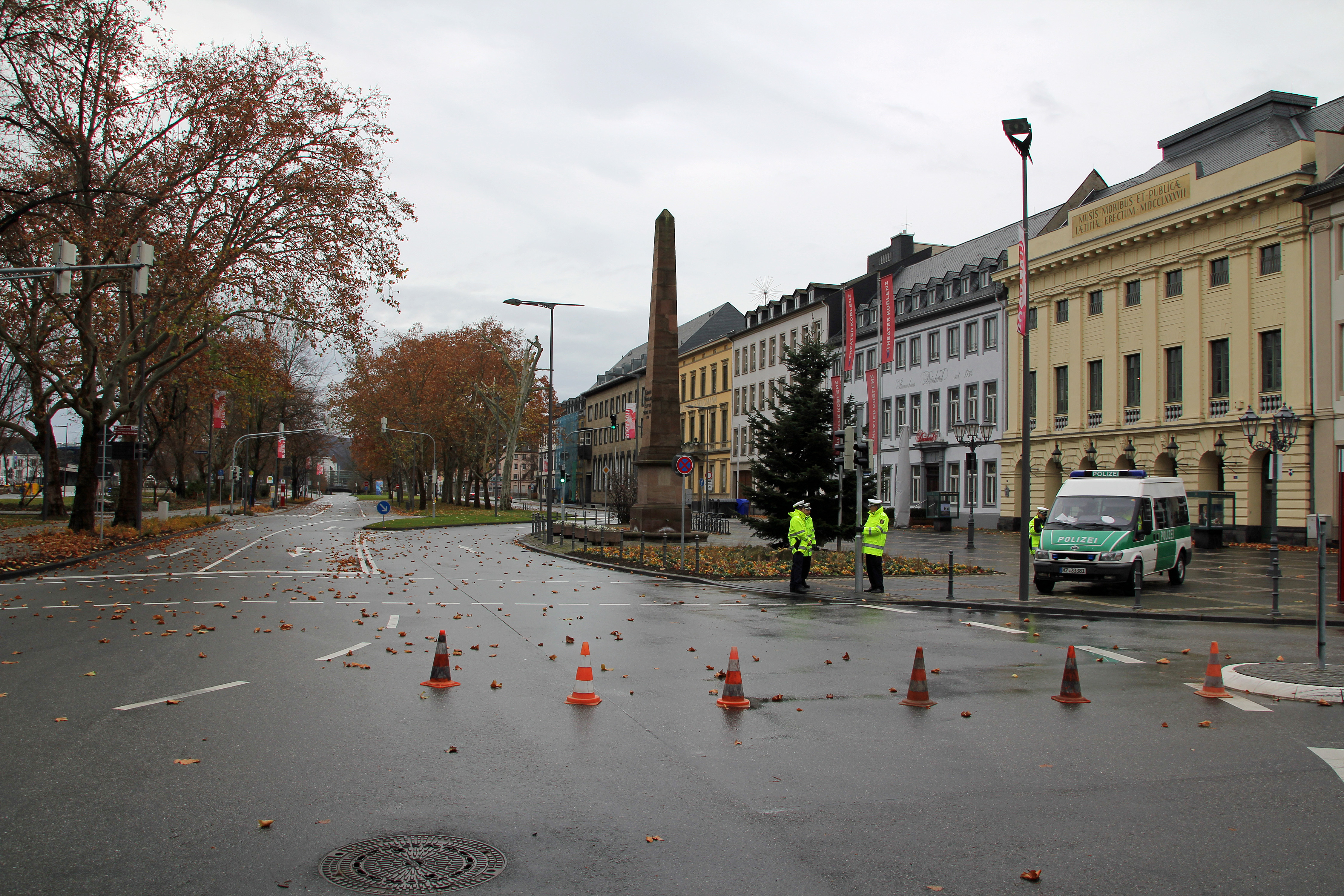 Evacuation of Koblenz